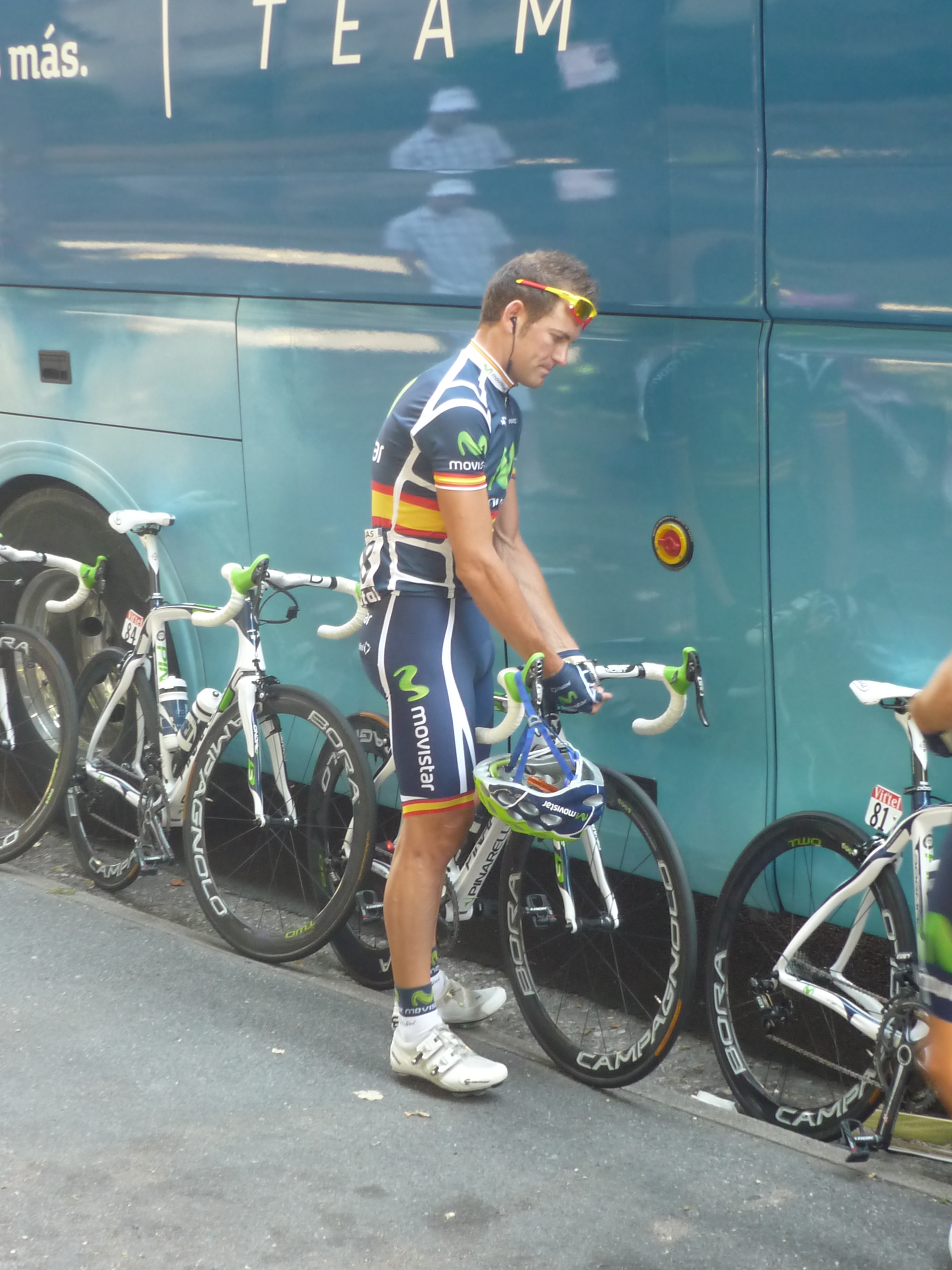 José Joaquín Rojas during 21th stage of Tour de France 2011 Créteil-Paris